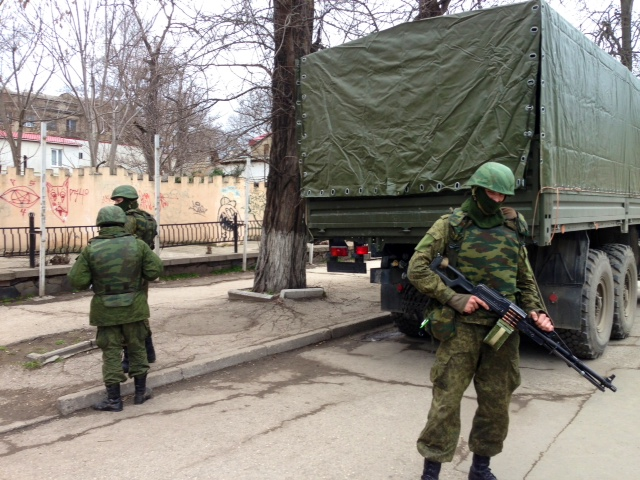 Soldiers without insignia guard buildings in the Crimean capital, Simferopol, March 2, 2014. (E Arrott/VOA).